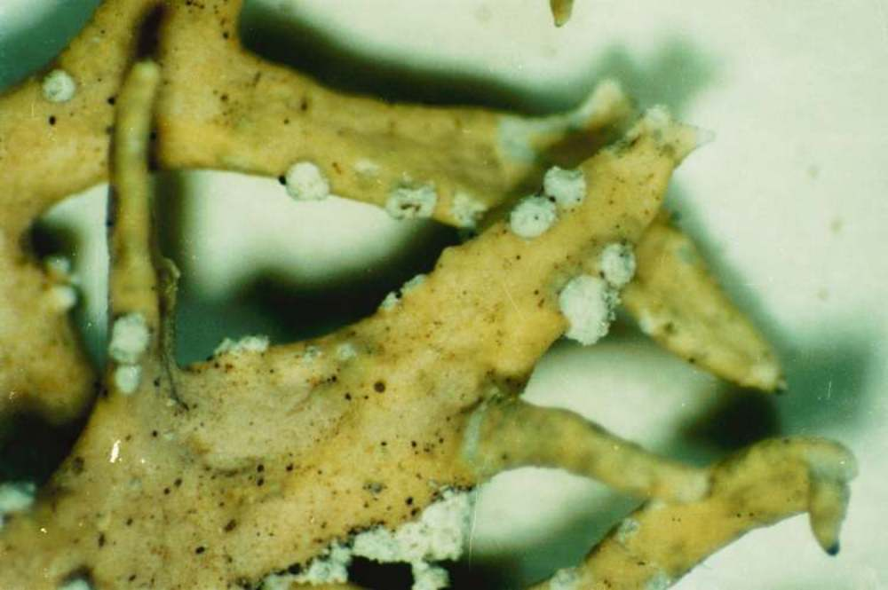 Evernia prunastri (L.) Ach. (herbarium specimen, close-up photo showing branches with soredia); growing on bark of Sugar Maple at Pellston campgrounds, Emmet County, Michigan, USA; collected and identified by Richard E. Riefner (No. 81-261, 26 Jun 1981); specimen is in the Lichen Herbarium of the New York Botanical Garden.